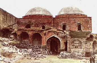 Found the image in Turkish wikipedia. Url is: The owner gives the right for public use.